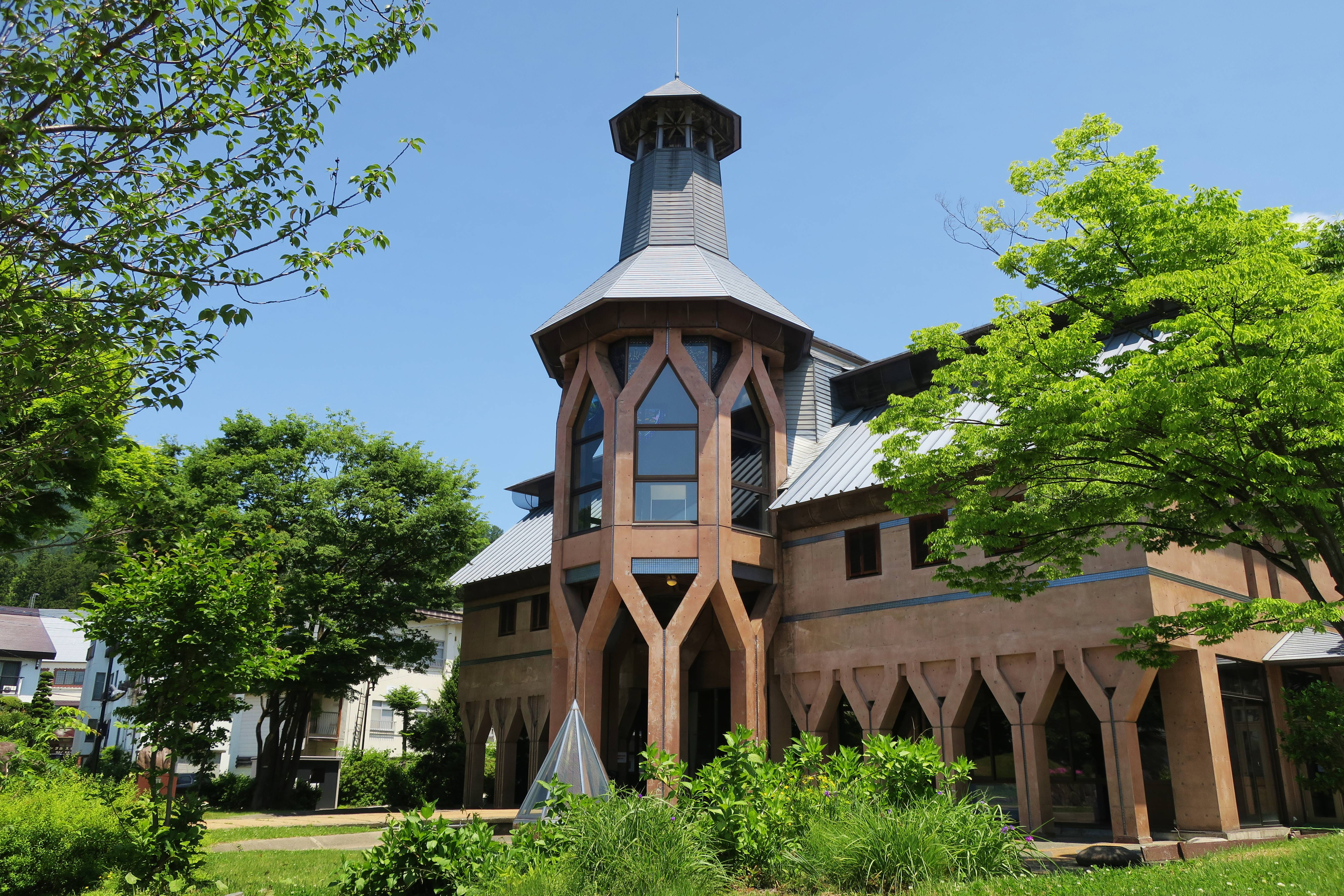 Oborozukiyo no Yakata Hanzan Bunko (Nozawaonsen, Nagano).